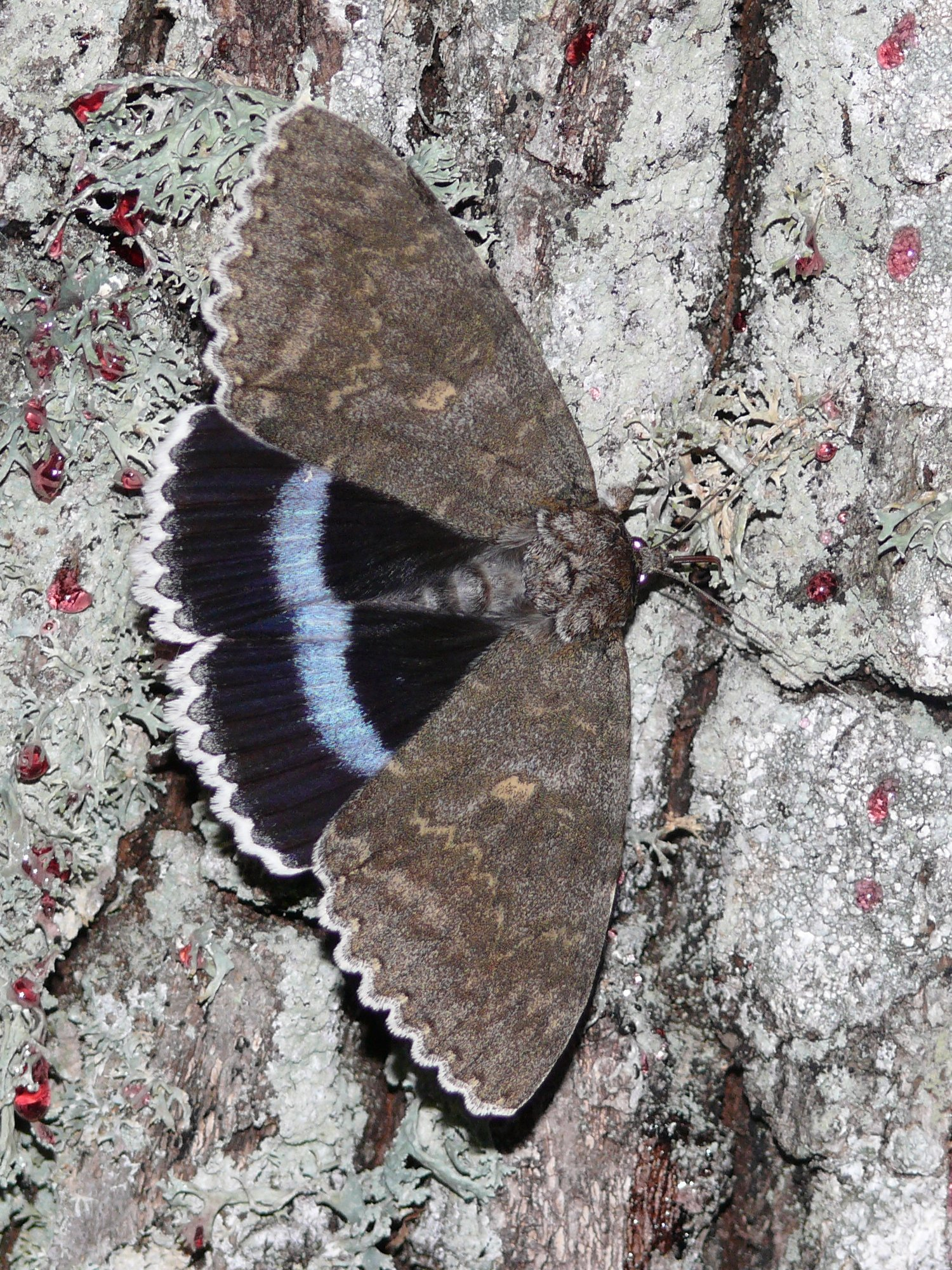 Blue Underwing, Perlacher Forst, Munich Aufgenommen bei einer Exkursion des Arbeitskreises Schmetterlinge der Kreisgruppe München beim Landesbund für Vogelschutz (LBV).